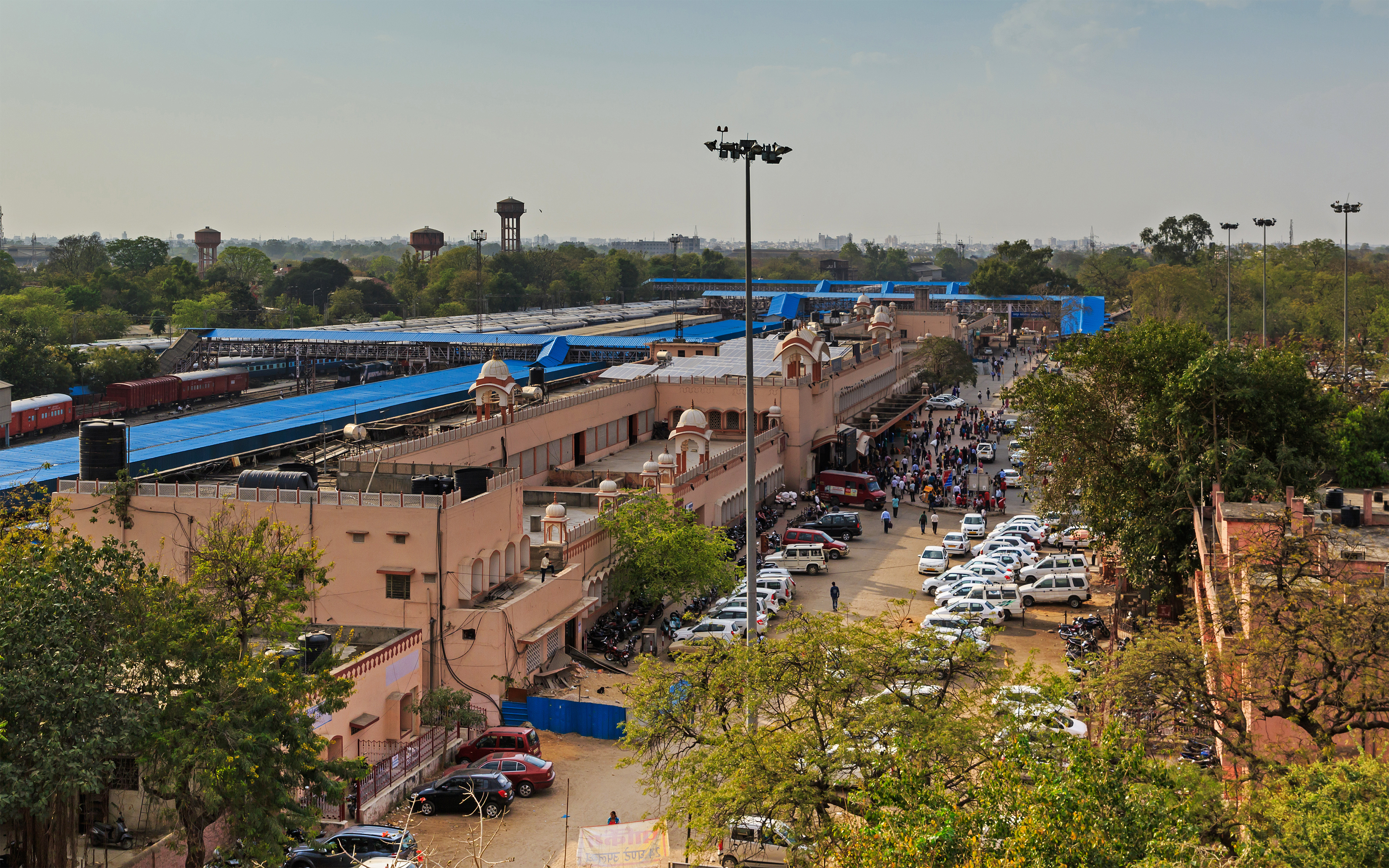 Jaipur railway station in Jaipur, India